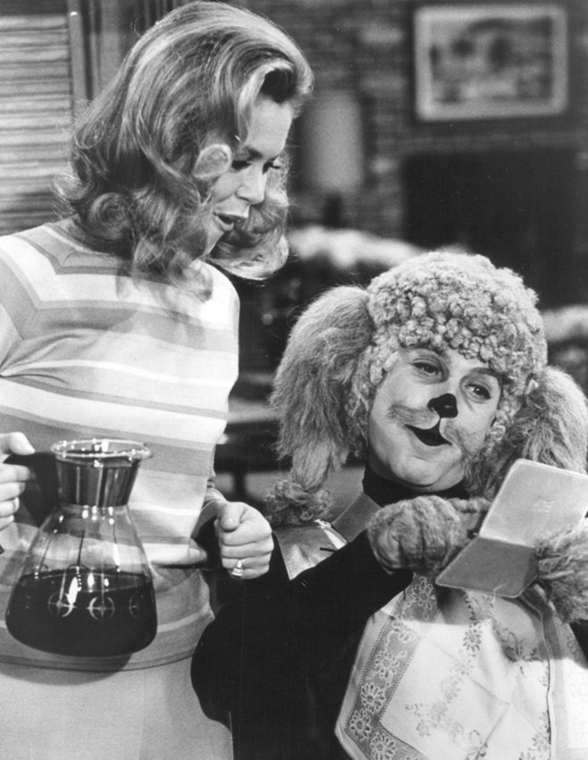 Publicity photo from Bewitched. Pictured are Samantha (Elizabeth Montgomery) and Steve Franken. Samantha plays hostess to space aliens conjured up by Aunt Clara's spell that backfired.